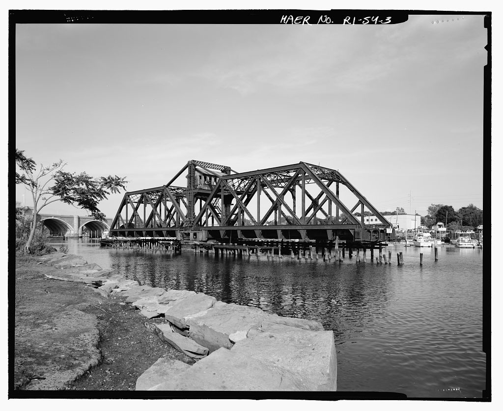 View of swing span from Fox Point Park looking east - India Point Railroad Bridge, Spanning Seekonk River between Providence & East Providence, Providence, Providence County, RI